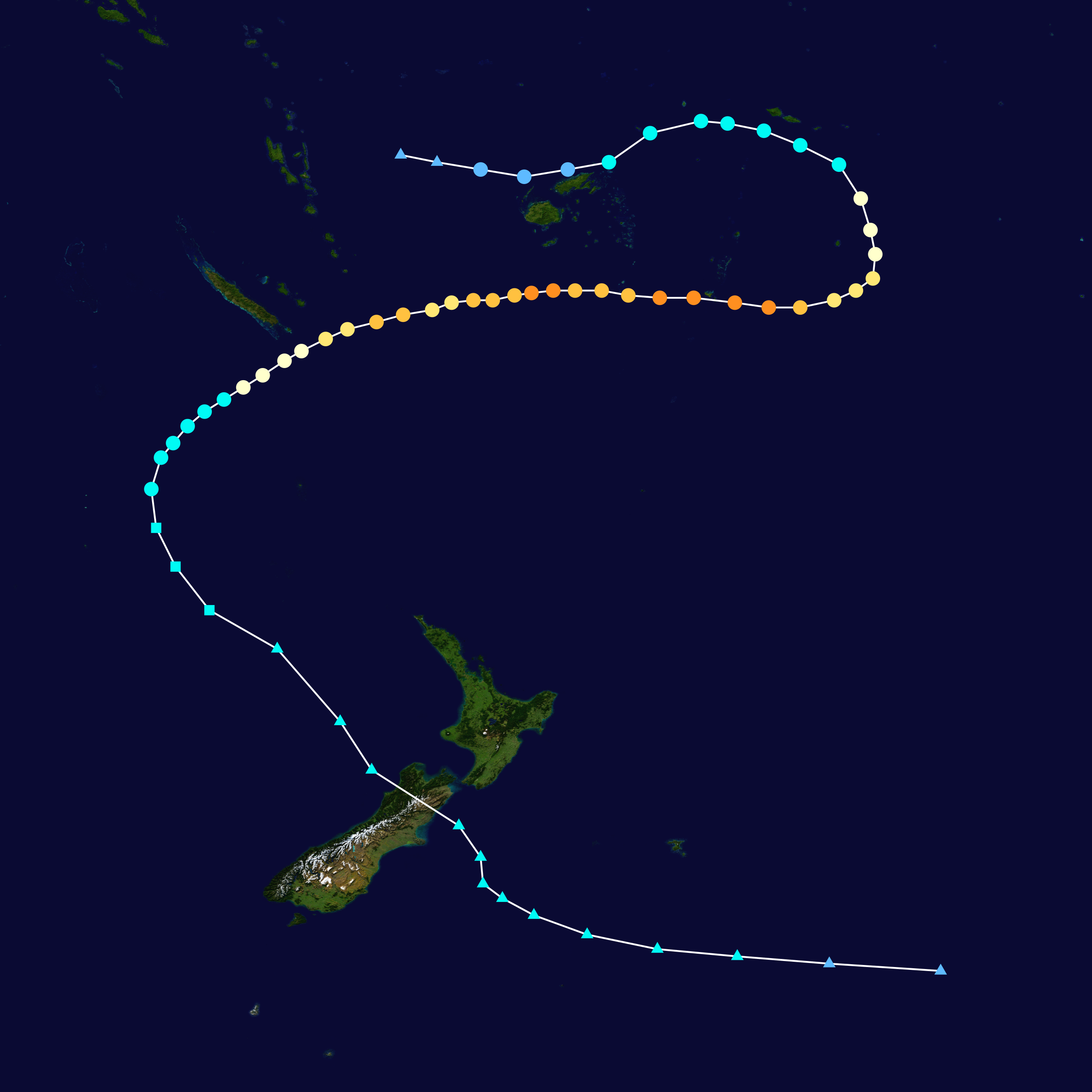 Track map of Severe Tropical Cyclone Gita of the 2017-18 South Pacific cyclone season. The points show the location of the storm at 6-hour intervals. The colour represents the storm's maximum sustained wind speeds as classified in the Saffir–Simpson scale (see below), and the shape of the data points represent the nature of the storm, according to the legend below. Saffir–Simpson scale Tropical depression≤38 mph≤62 km/h Category 3111–129 mph178–208 km/h Tropical storm39–73 mph63–118 km/h Category 4130–156 mph209–251 km/h Category 174–95 mph119–153 km/h Category 5≥157 mph≥252 km/h Category 296–110 mph154–177 km/h Unknown Storm type Tropical cyclone Subtropical cyclone Extratropical cyclone / Remnant low / Tropical disturbance / Monsoon depression